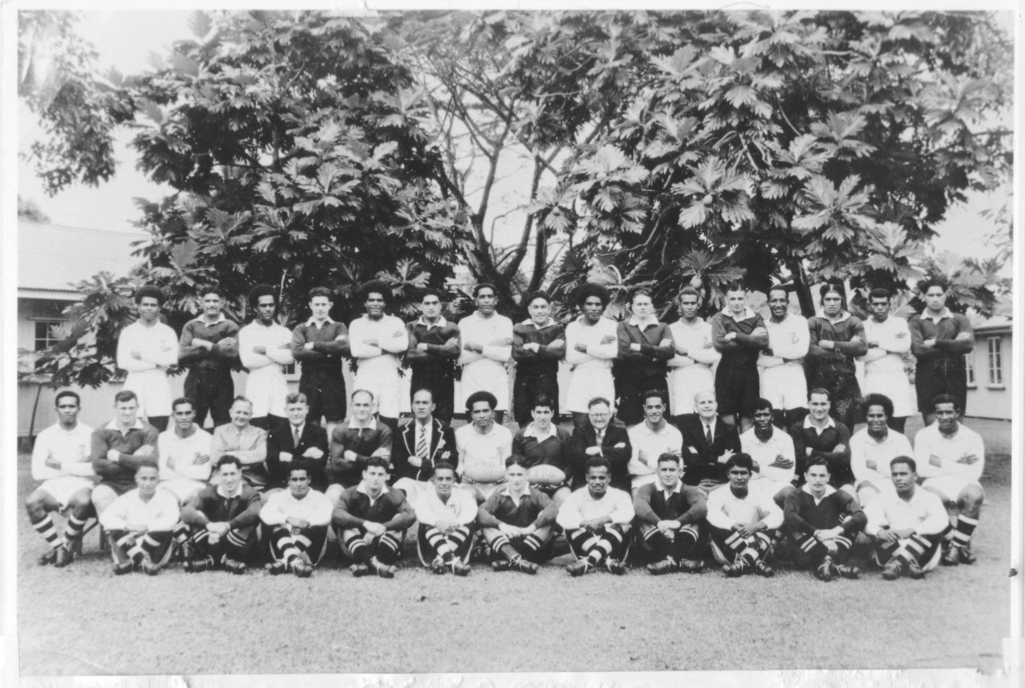 1948 NZ Maori and Fiji in Suva. Fiji team & officials: Back row (l-r): Kalivati Cavuilati, Ilaitia Cobitu, Malakai Lababure, Same Kikau, K Macanawai, Tomu Waqa, Apakuki Tuitavua, Ilisoni Qio. Middle row: Ilaitia Vuivuda, Etuate Nima, Jack Wiley (coach), Ratu Etuate Cakobau (manager), Sam Baravilala (capt), Esava Vavaitamana, Insp D McGusty (trainer), Onisimo Naikovu, Sailosi Valewai, Joeli Susu. Front row: Jone Saumaki, Jone Ravu, Naitini Tuiyau, Aisea Tuisese, Taniela Ranavue, Alipate Veikoso.